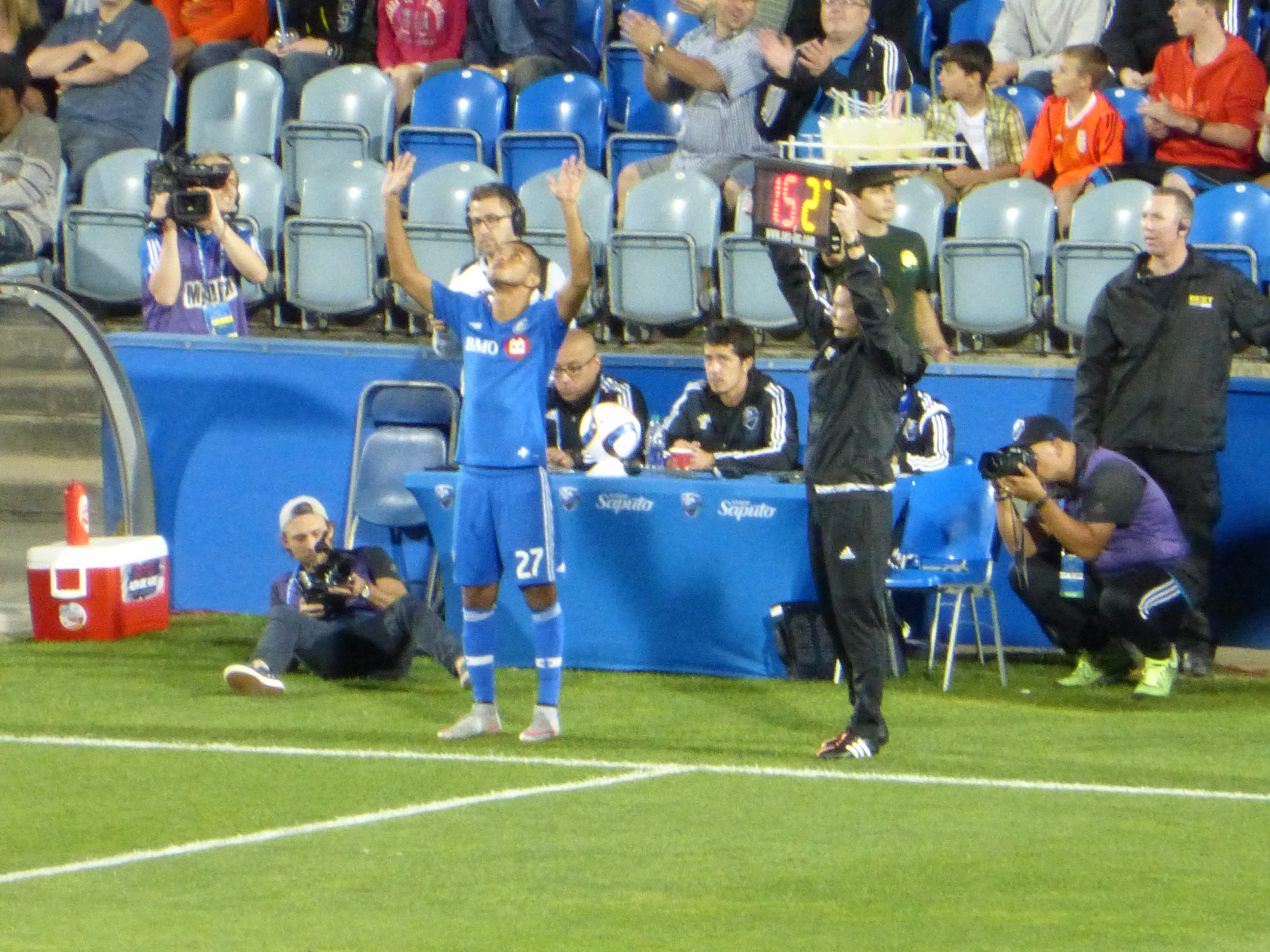 August 5th, 2015. Johan Venegas making his official debut for Montreal Impact, in a match against New York Red Bulls (1-1).